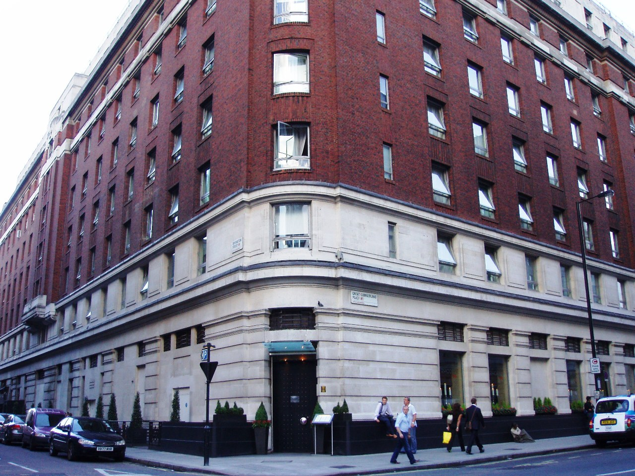 Flagship of the Rhodes empire, in the Cumberland hotel. Owner: Gary Rhodes ( website ). Links: London Eating Time Out